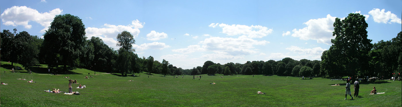 Prospect Park Long Meadow panorama